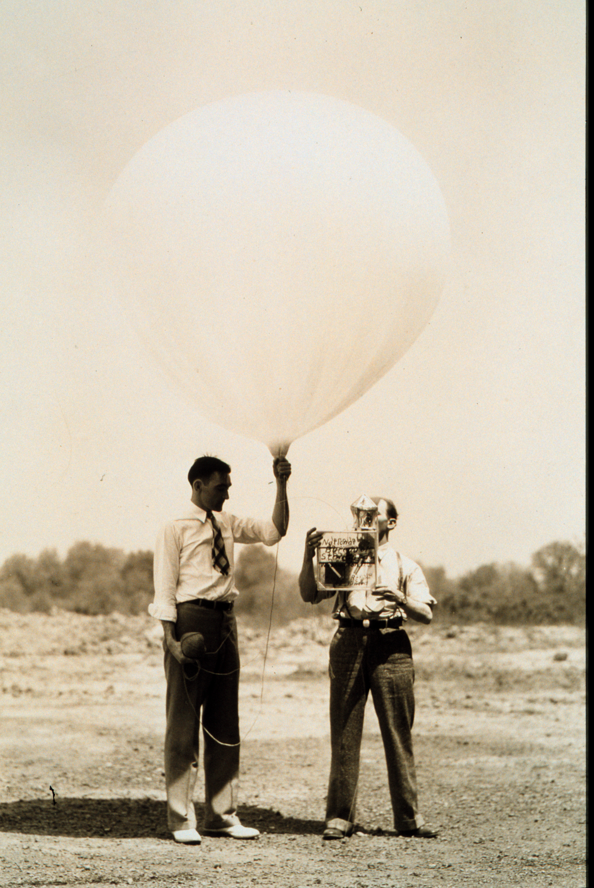 Early launch of radiosonde developed by U.S. Bureau of Standards. Launch preparations at Washington Airport blimp hangar. Washington, D.C. May 7, 1936.